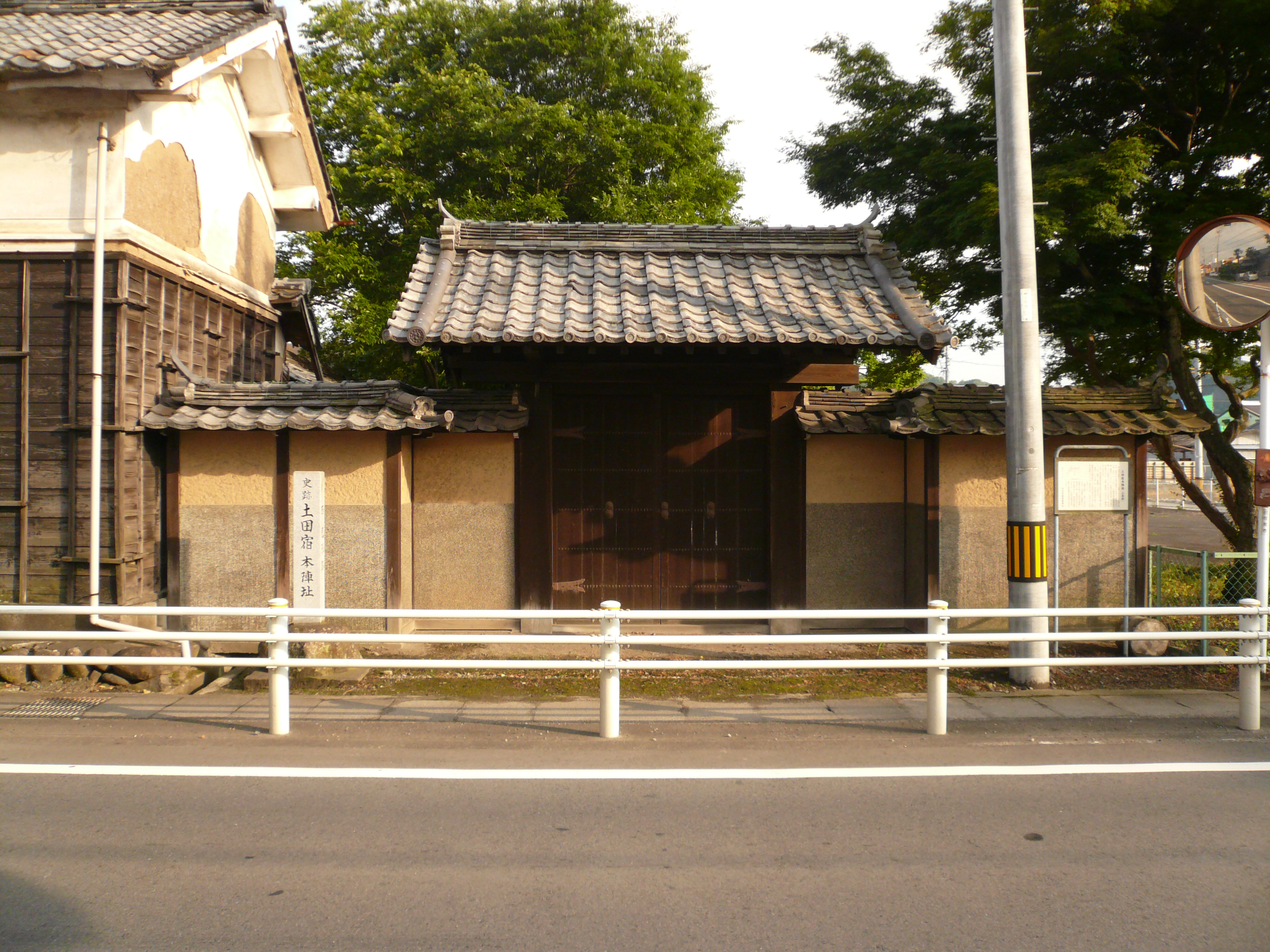 Dota-juku, Kani, Gifu, Japan